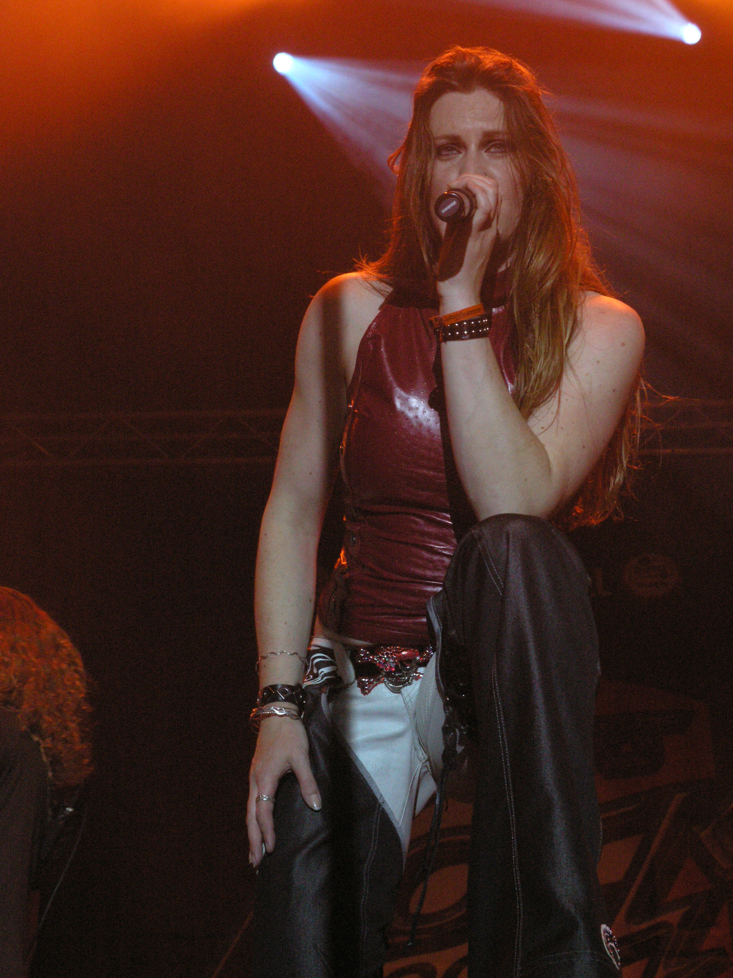 Floor Jansen from After Forever during Masters of Rock 2007 festival